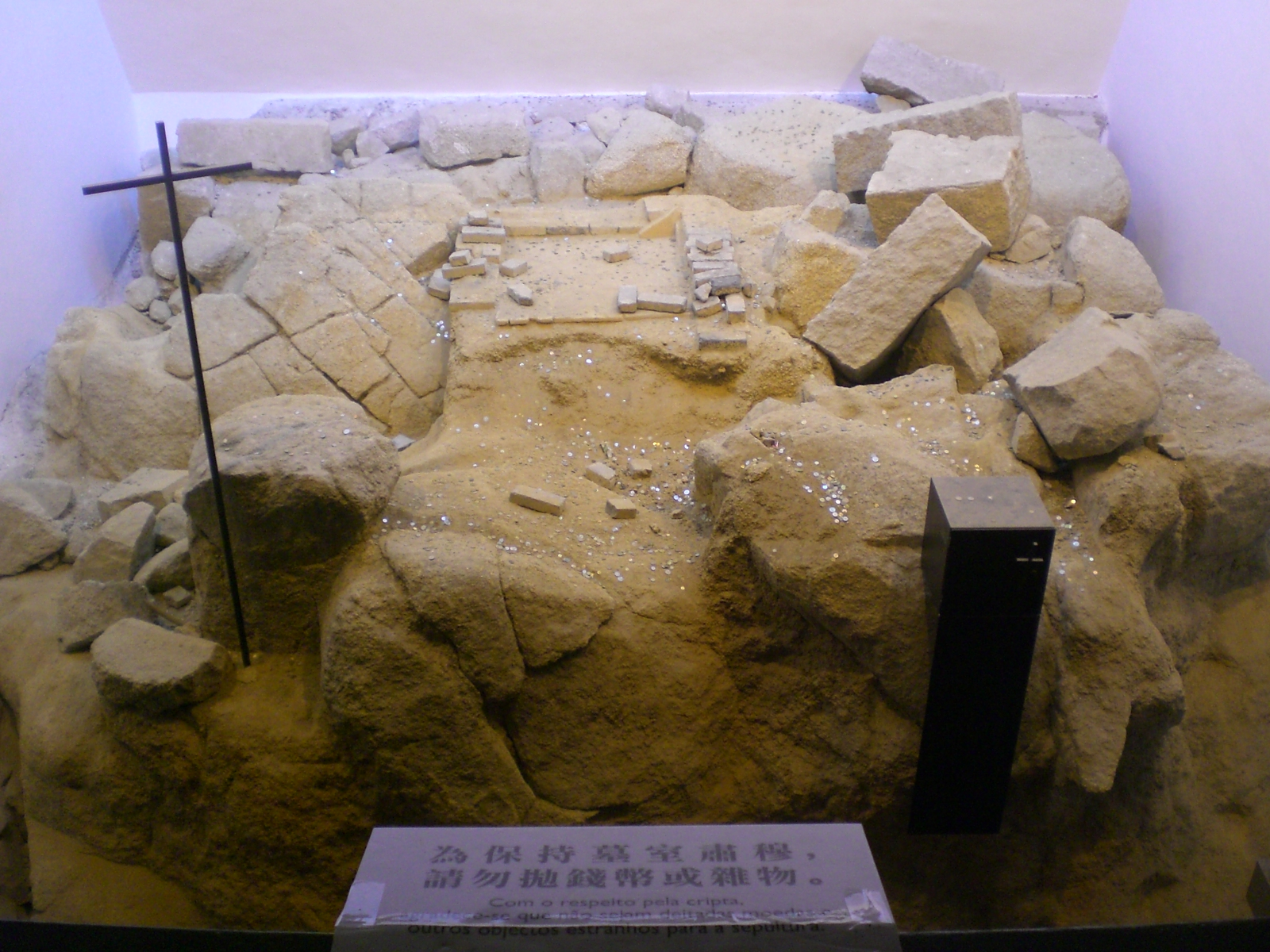 大三巴牌坊, Cathedral of Saint Paul in Macau and 天主教藝術博物館與墓室 O Museu de Arte Sacra e Cripta (Museum of Sacred Art). Photo author= Mo707